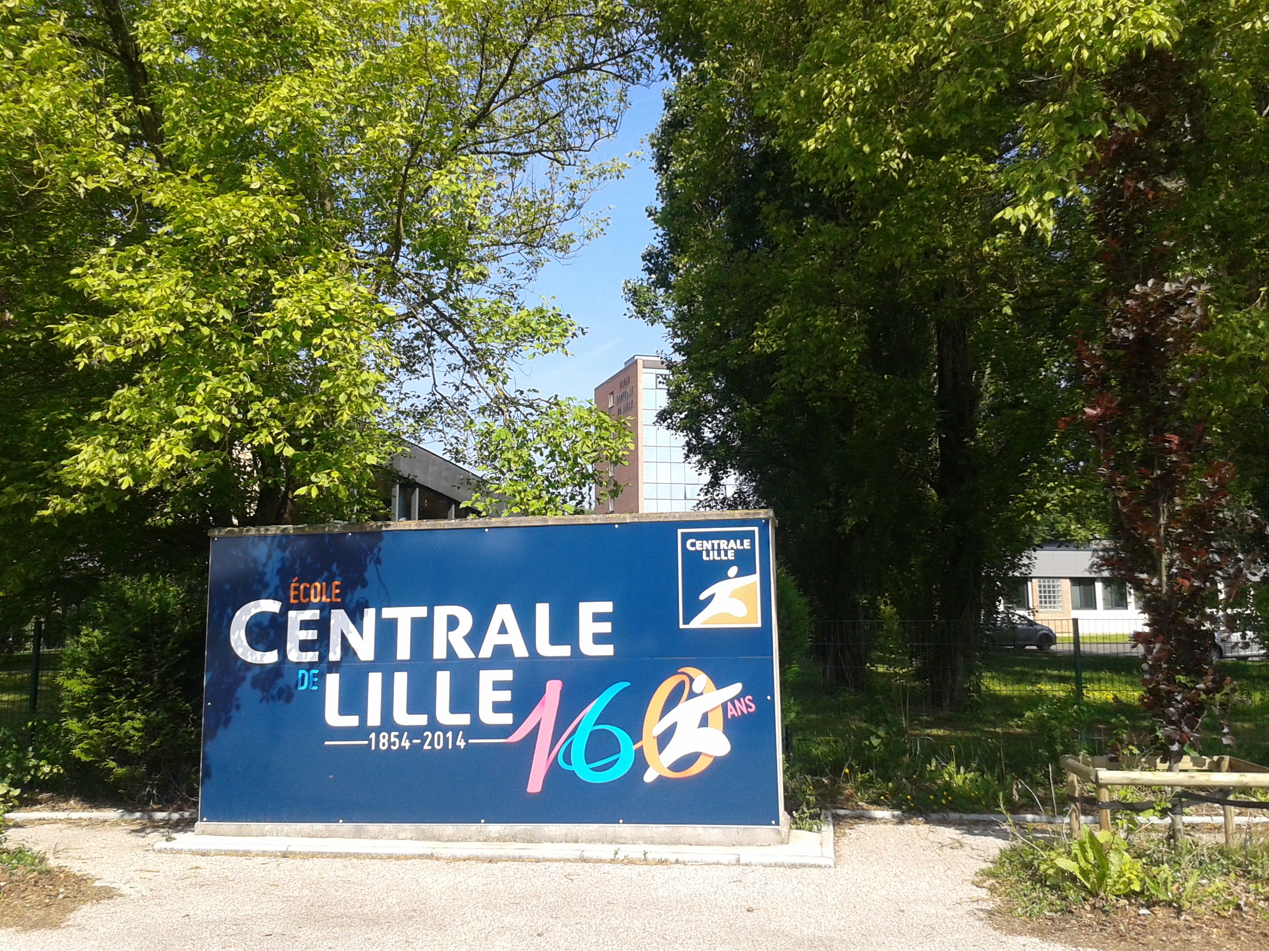 En 2014, l'École Centrale de Lille fête ses 160ans